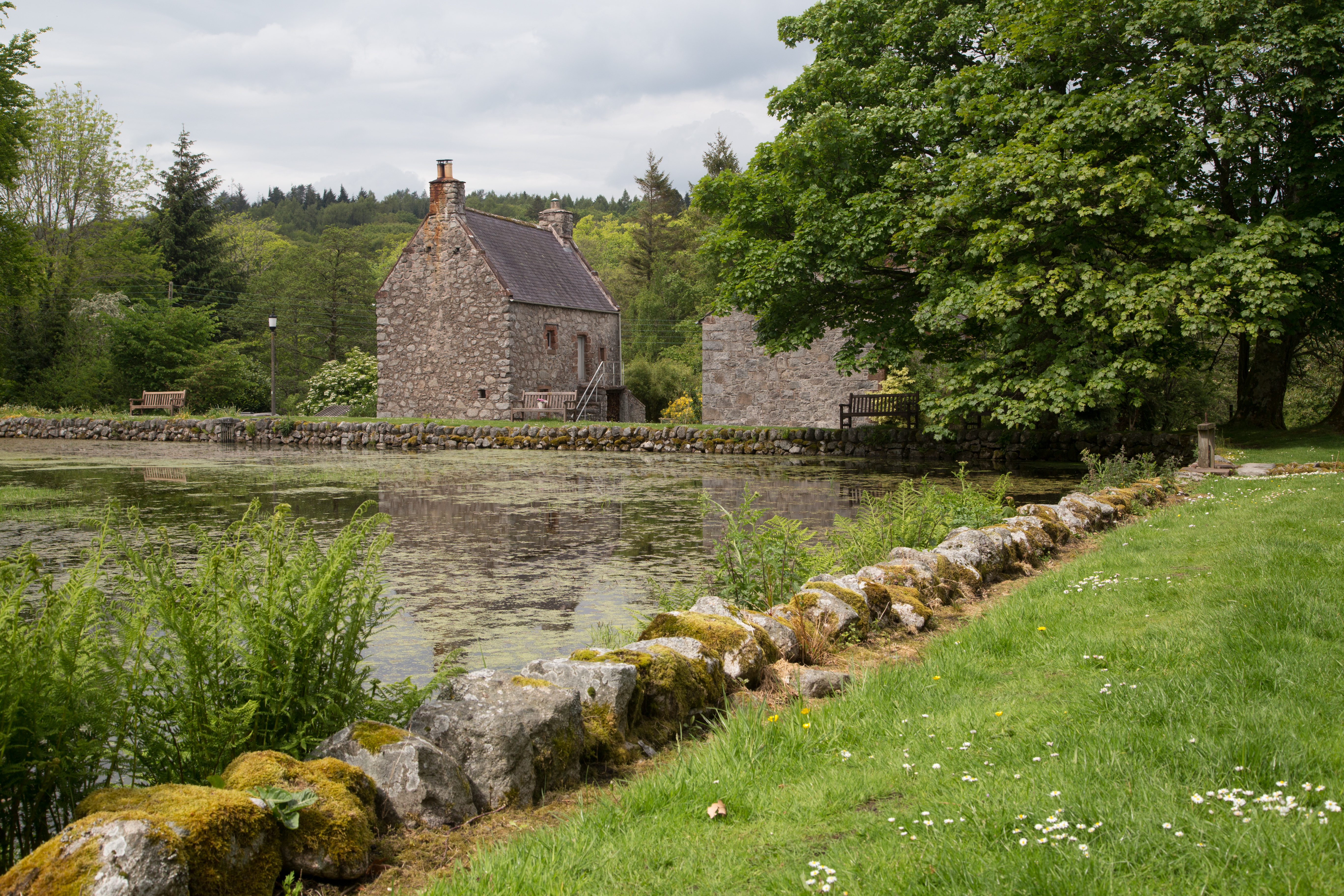 New Abbey, Old House Wikidata has entry Q17570993 with data related to this item.